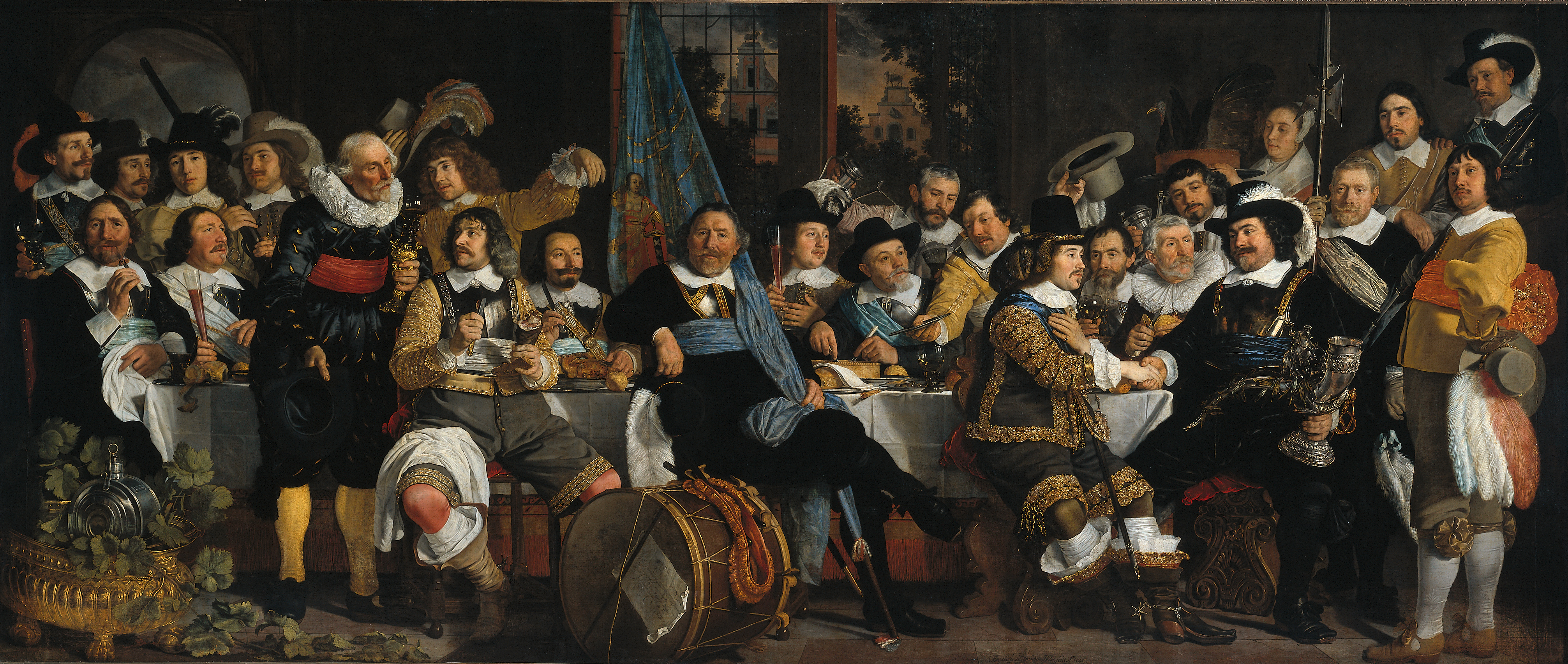 Celebration of the peace of Münster, 18 June 1648, in the headquarters of the crossbowmen's civic guard (St George guard), Amsterdam. The people portrayed are: (right, with silver horn) captain Cornelis Jansz. Witsen, (shakes hand of previous) lieutenant Johan Oetgens van Waveren, (seated behind the drum, with flag) reserve officer candidate Jacob Banning, sergeants Dirck Claesz. Thoveling and Thomas Hartog. Additionally: Pieter van Hoorn, Willem Pietersz. van der Voort, Adriaen Dirck Sparwer, Hendrick Calaber, Govert van der Mij, Johannes Calaber, Benedictus Schaesk, Jam Maes, Jacob van Diemen, Jan van Ommeren, Isaac Ooyens, Gerrit Pietersz. van Anstenraadt, Herman Teunisz. de Kluyter, Andries van ANstenraadt, Christoffel Poock, Hendrick Dommer Wz., Paulus Hennekijn, Lambregt van den Bos and Willem the drummer.